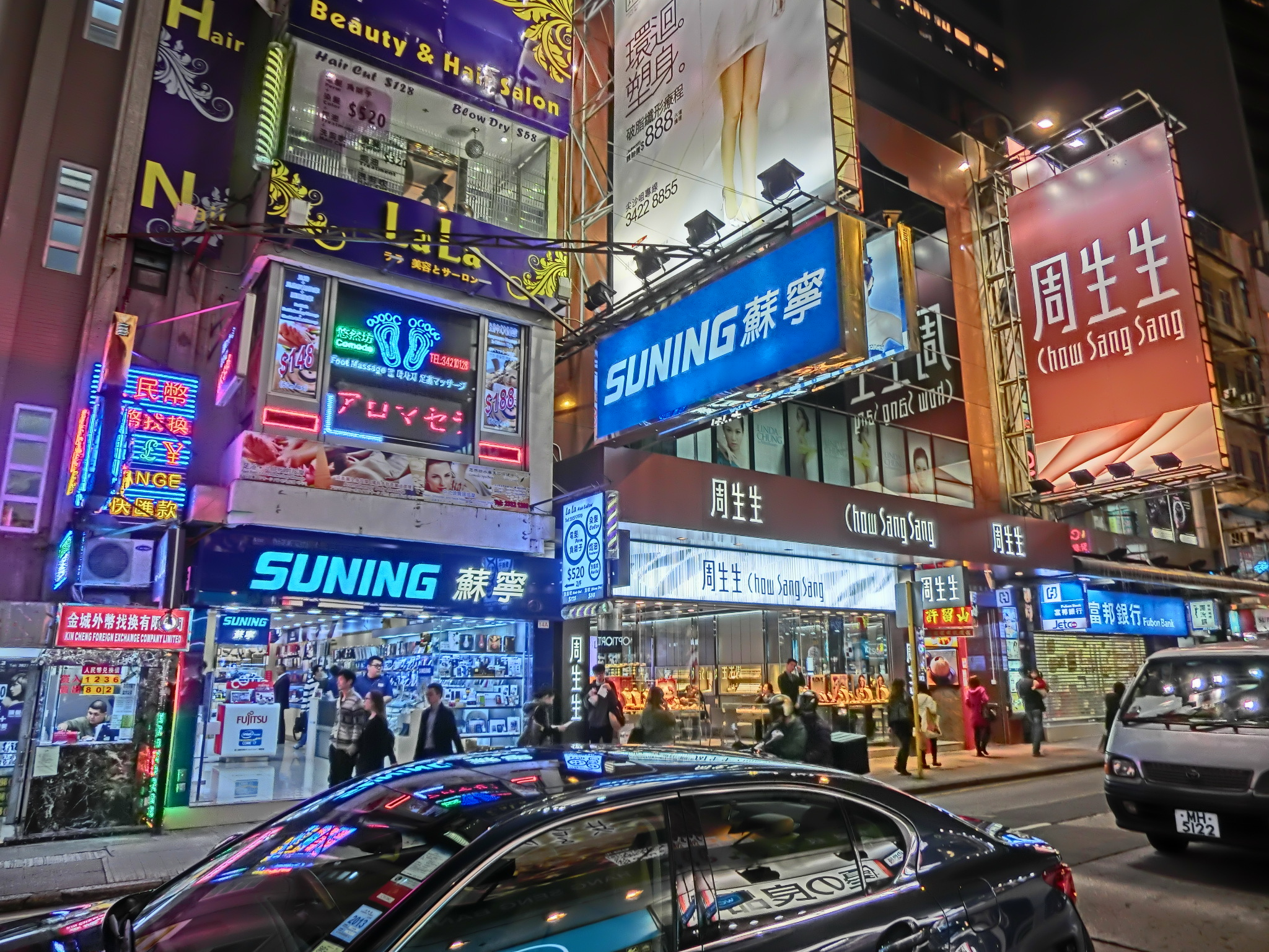 尖沙咀金馬倫道, Cameron Road, Tsim Sha Tsui, Hong Kong